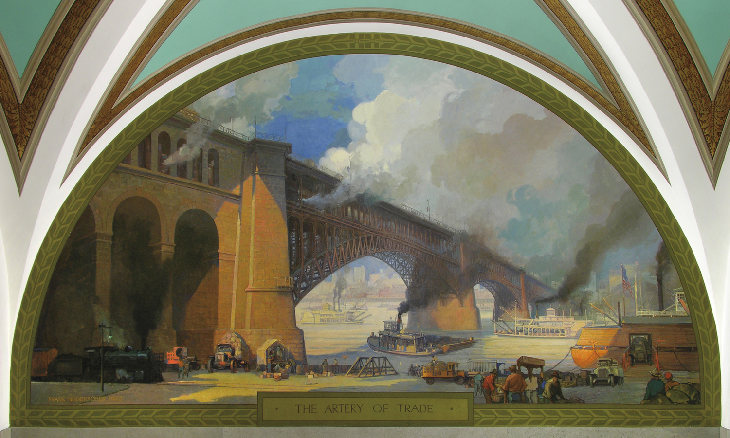 Frank Nuderscher painted this lunette of the Eads Bridge in the Missouri State Capitol. Completed in 1922, The Artery of Trade (originally titled The Great Crossing) is a favorite of capitol visitors because of the optical illusion of the bridge moving as the viewer walks past.